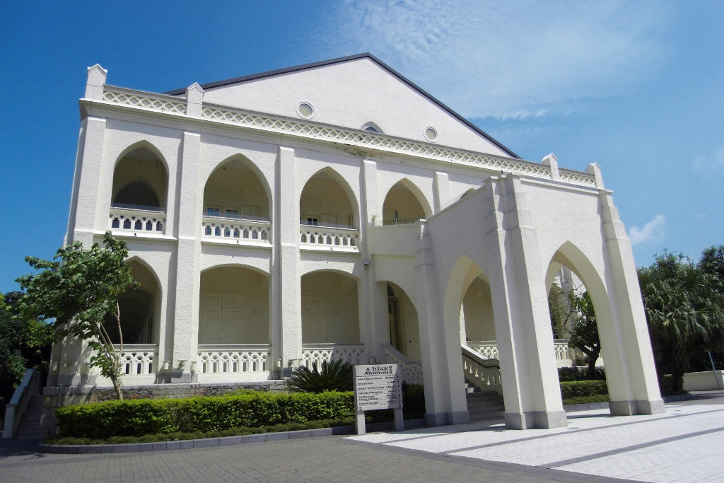 Béthanie, located in Pok fu lam, Hong Kong (China)